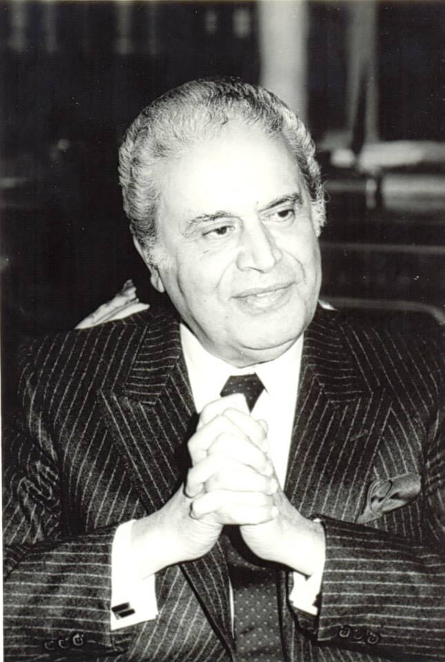 Hedi Mabrouk (1921-2000), Tunisian former foreign minister